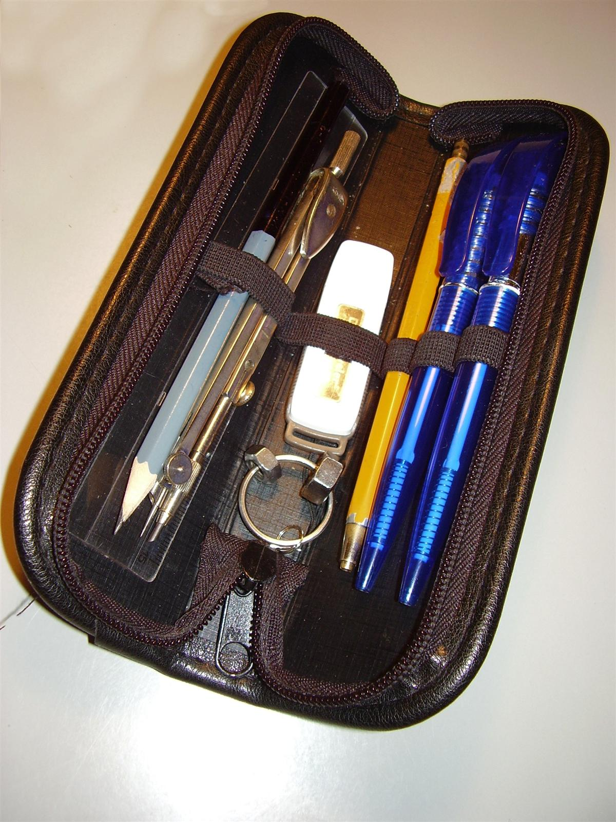 Pensil case with school needs